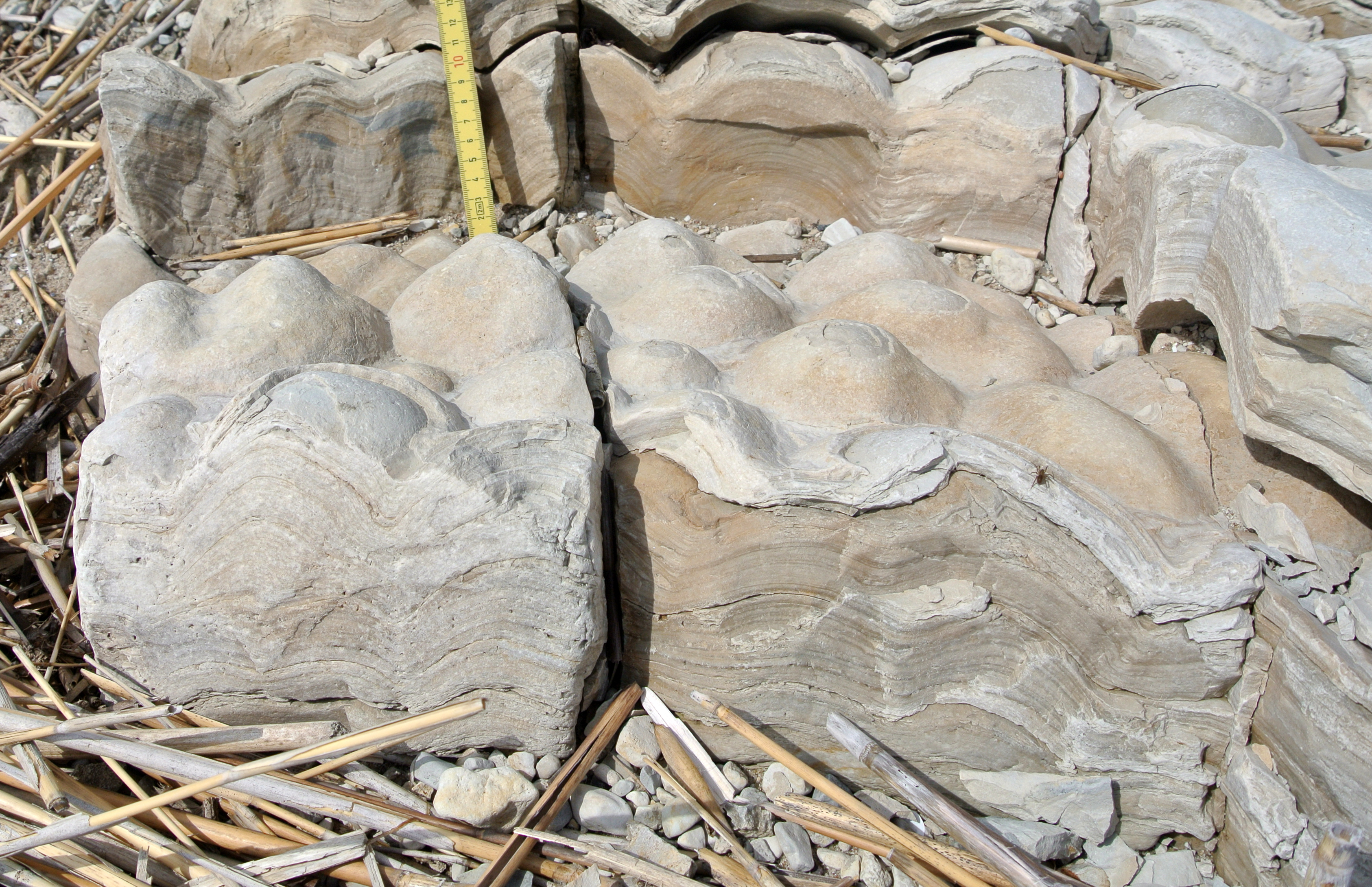 Stromatolites in the Soeginina Beds (Paadla Formation, Ludlow, Silurian) near Kübassaare, Saaremaa, Estonia.